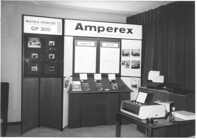 GP-300 Dot Matrix Printer by Amperex Electronic Corporation.